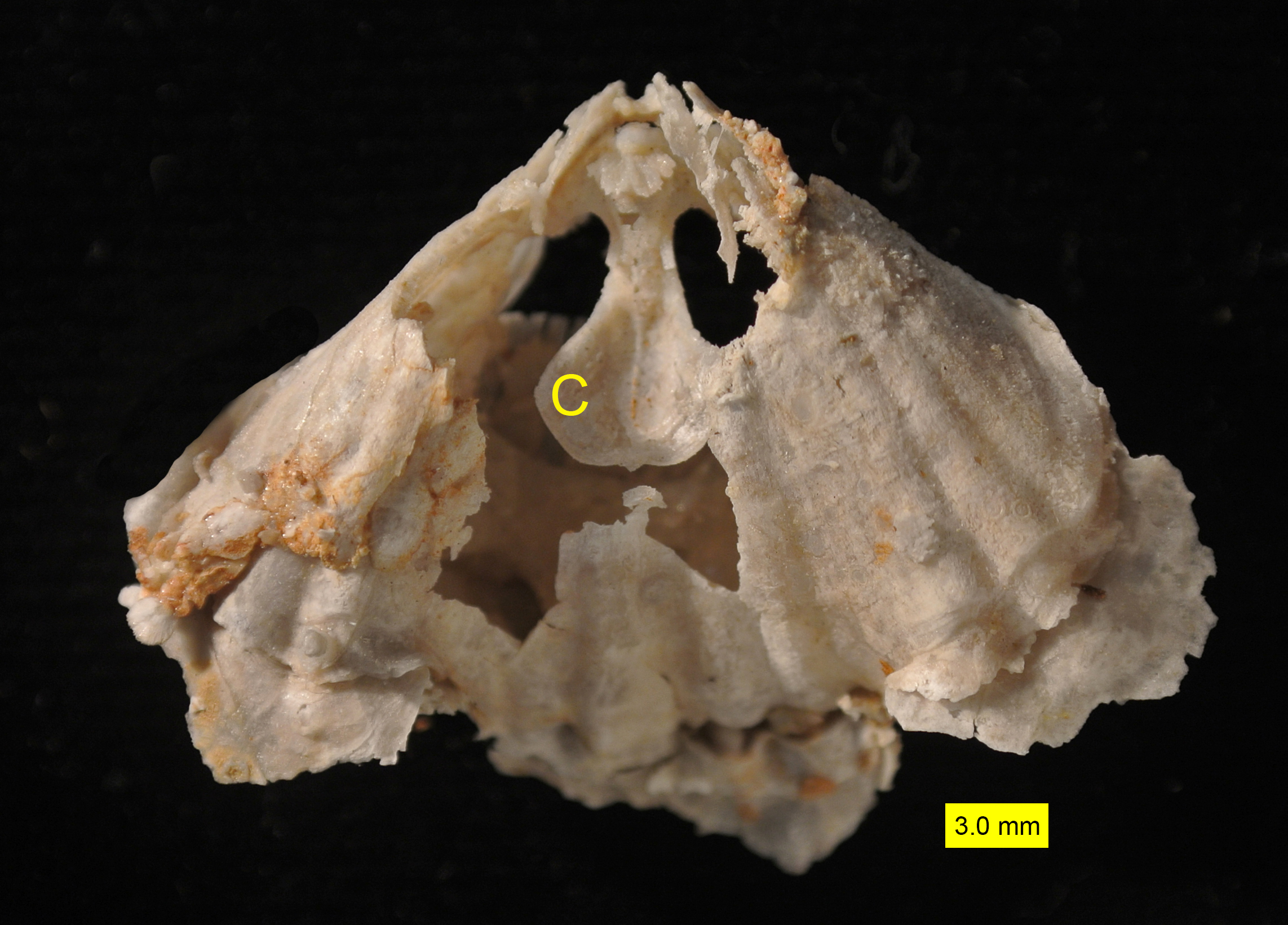 Rhynchonellid brachiopod; Roadian, Guadalupian (Middle Permian); Glass Mountains, Texas.